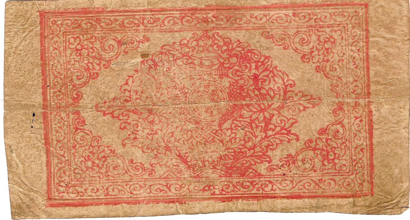 Tibetan 10 Tam banknote, dated T.E. 1659 (= AD 1913), serial number 17674 (backside)